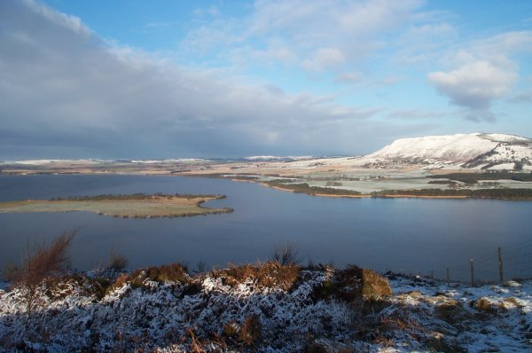 Loch Leven, View from the viewpoint above Vane Farm, looking over Loch Leven and St Serf's Inch (island).